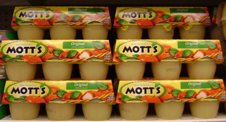 On The Shelves